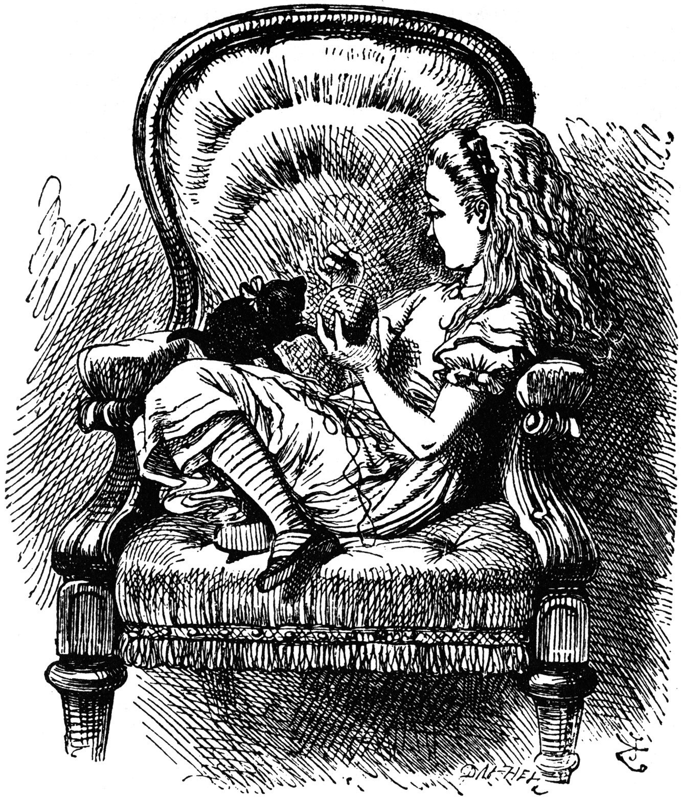 "Oh, You Wicked Little Thing" by John Tenniel, from Alice's Adventures in Wonderland